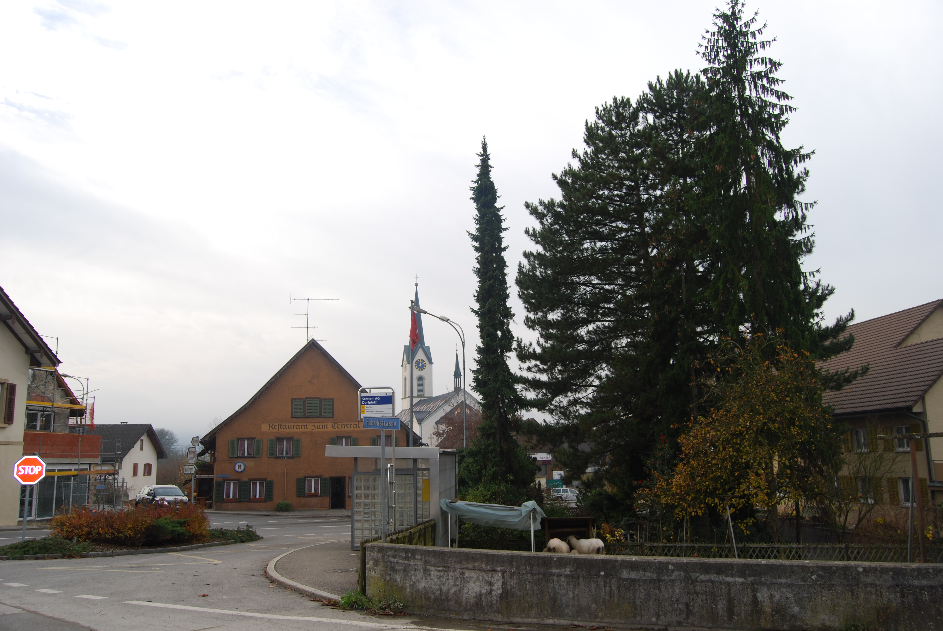 Stetten, canton of Aargau, SwitzerlandEsperanto: Stetten, Kantono Argovio, Svislando